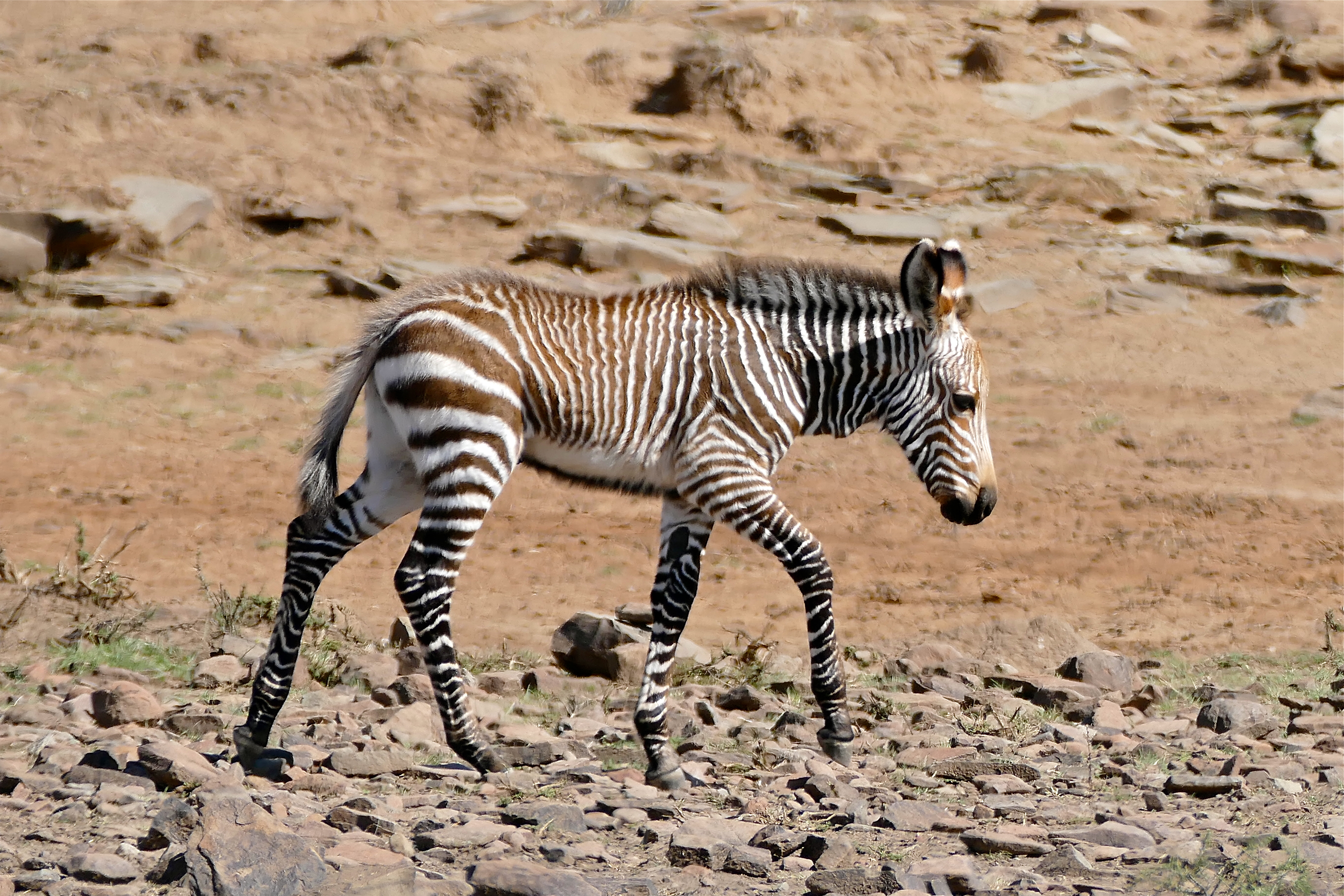 Link Road, Mountain Zebra NP, Eastern Cape, SOUTH AFRICA